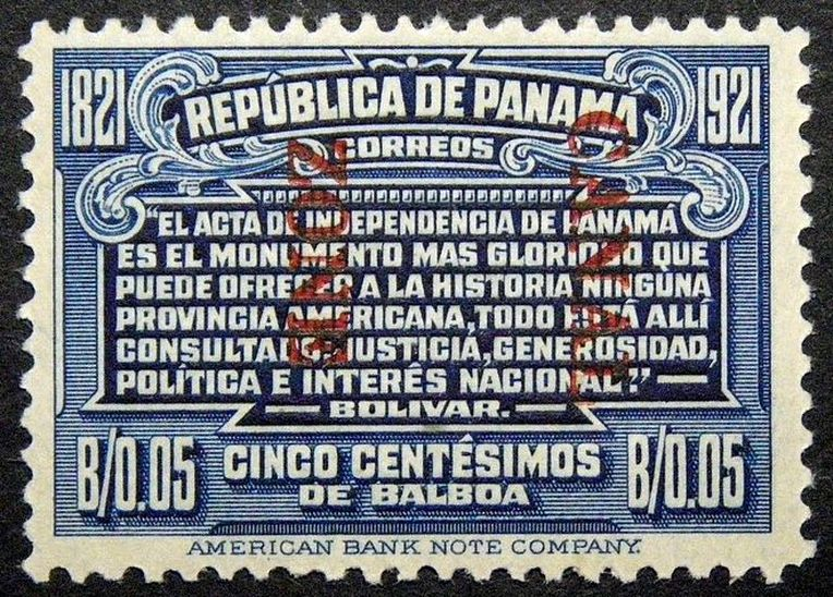 Canal Zone, Bolivar's Tribute, 5c, 1921 Issue Image obtained from eBayeBay item 282864614794